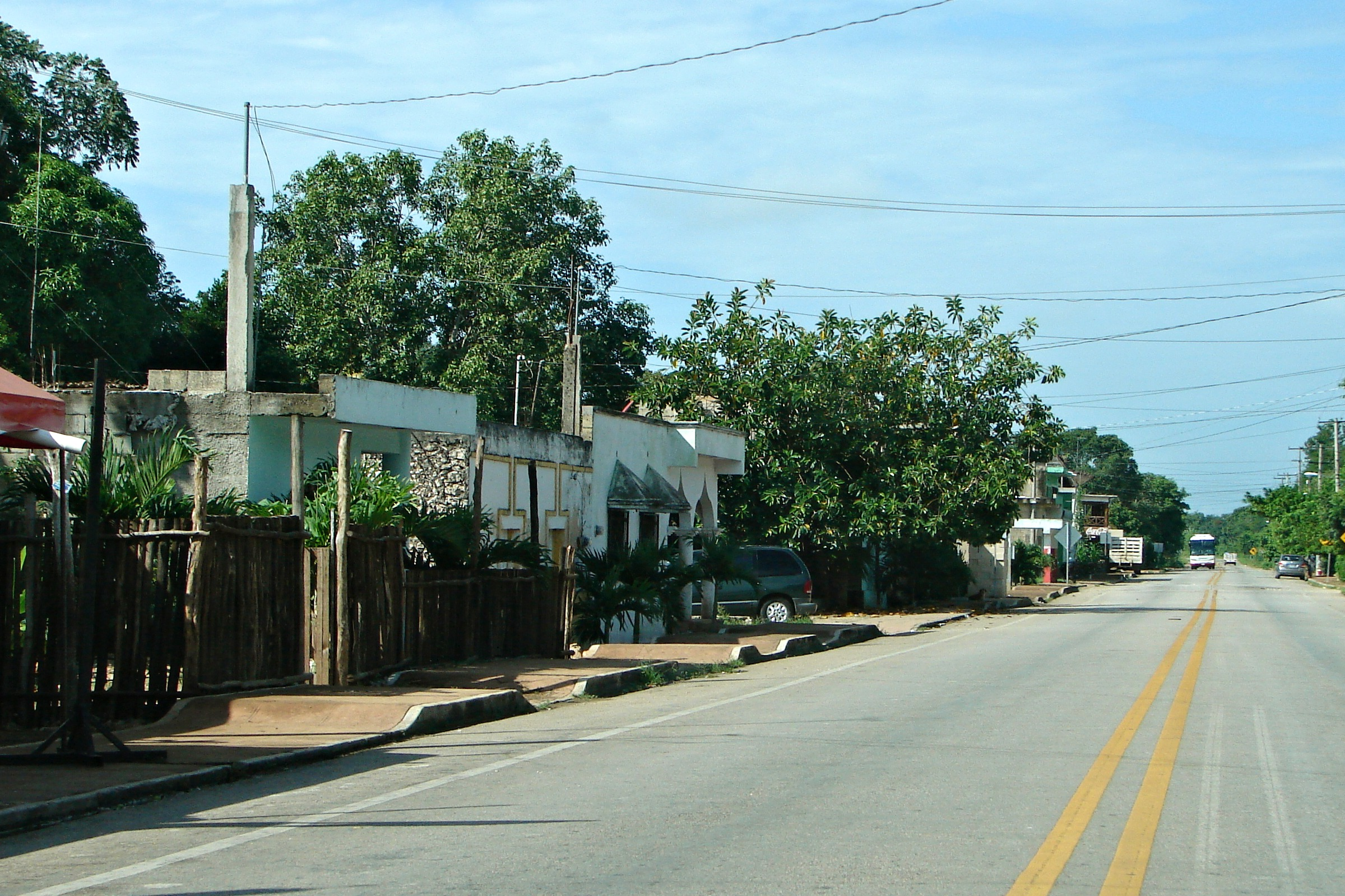 Catzin, Chemax Municipality, Yucatán, Mexico